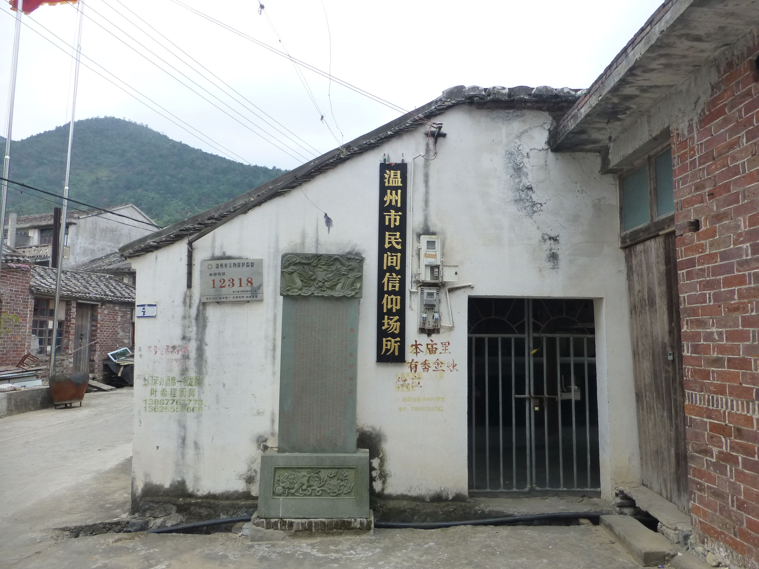 Wucheng Village and Wucheng Bay. Mazhan Town, Cangnan County, Zhejiang, China. The building is marked as a "民间信仰场所", i.e. a "folk religion site"; must have been a temple in honor of Yan Gong (晏公元帅)